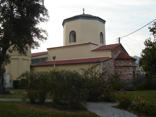 Church of Agia Sofia, Drama